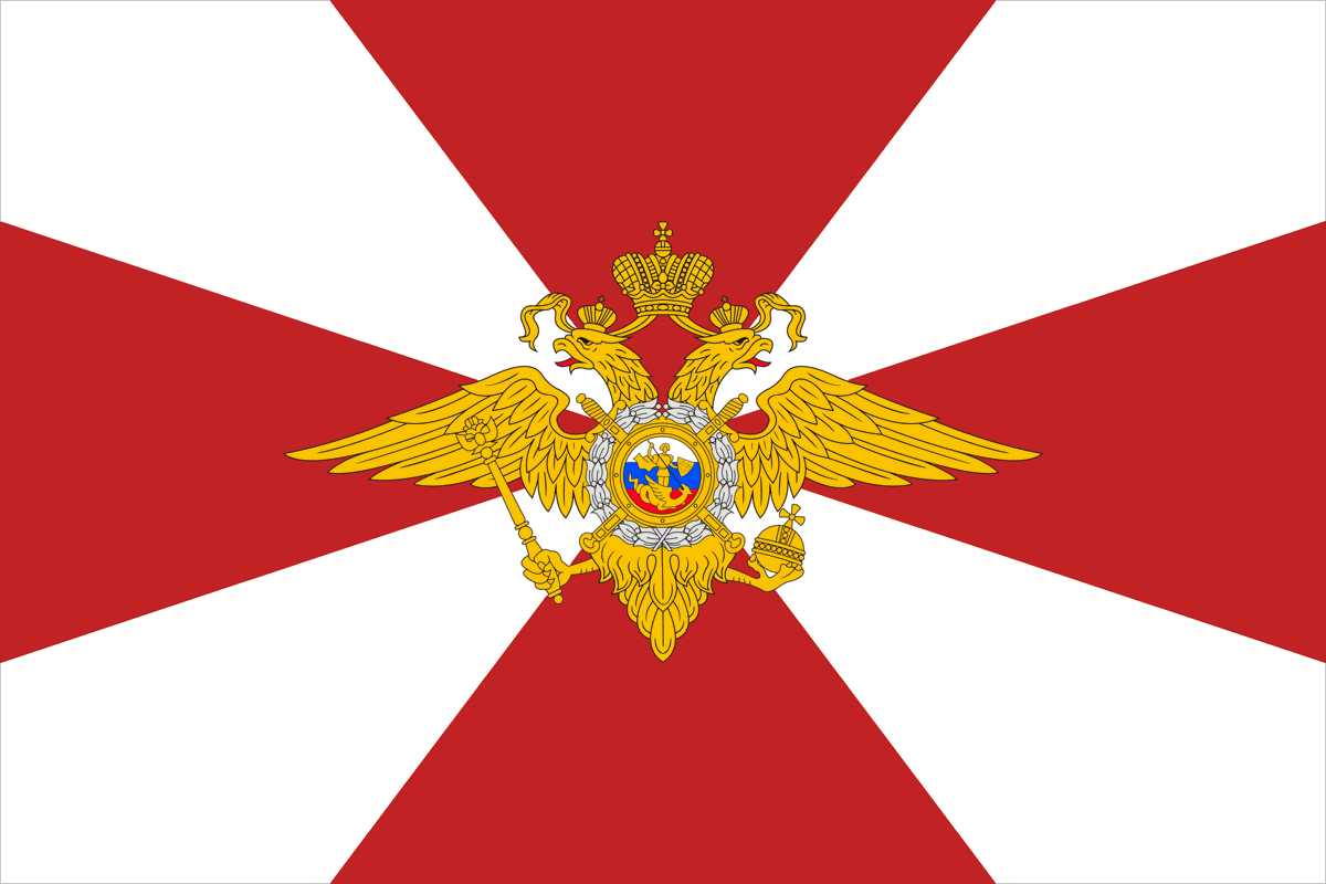 Flag of Internal Troops of Russia, Russia